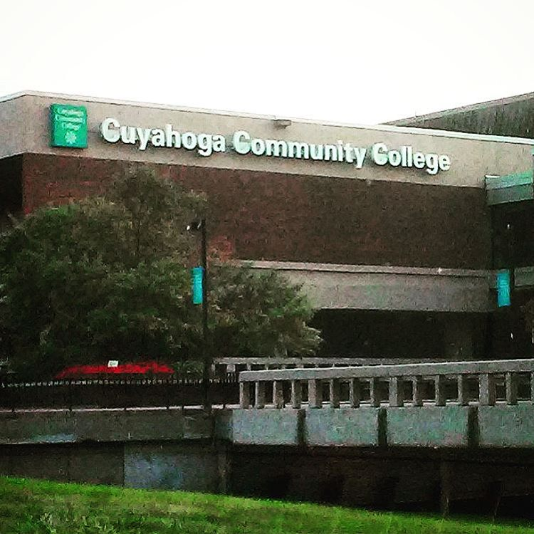 Photo of Cuyahoga Community College